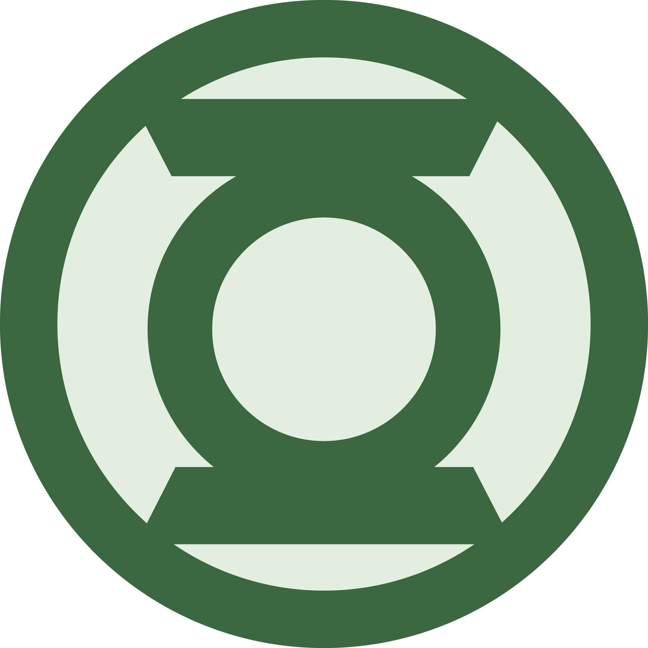 Logo of green lanterns